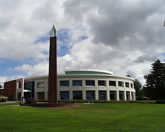 Carillon Chime Tower at Clark College (Vancouver WA). Fundraising by Bob Moser begun in 1964, Design by Richard Stensrude, constructed with materials from Hidden brick yard and nearby Alcoa aluminum plant.